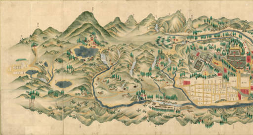 Map of Mt. Nikkō